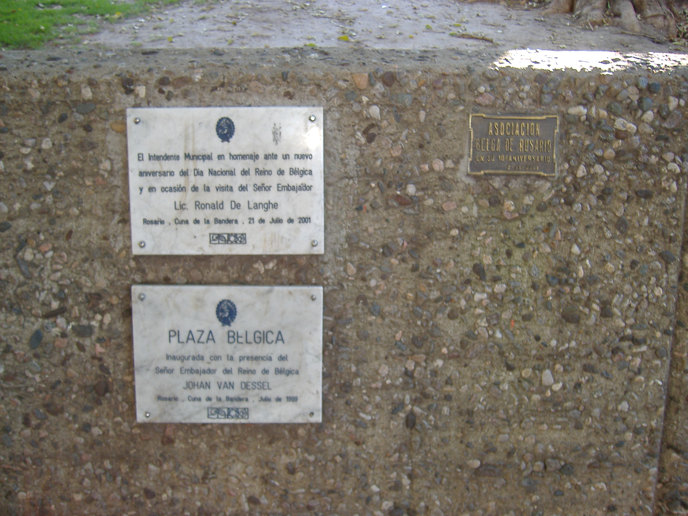 Plaques at Plaza Bélgica in Rosario, Argentina. This urban square, dedicated to Belgian community of the city, is located at the corner of Colón St. and Zeballos St., in the southern downtown. The plaques read (left to right and top to bottom): El Intendente Municipal en homenaje ante un nuevo aniversario del Día Nacional del Reino de Bélgica y en ocasión de la visita del Señor Embajador Lic. Ronald De Langhe. Rosario, Cuna de la Bandera, 21 de Julio de 2001. In